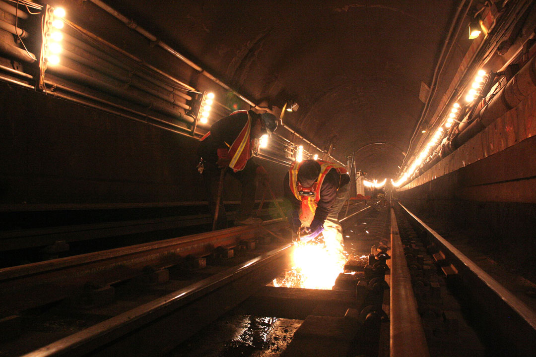 Over the weekend of October 22-23, 2011, workers installed new continuous welded rail in the N/R/Q 60th Street Tube under the East River. This photo shows a welder cutting frozen bolts off of old rails. Photo by Metropolitan Transportation Authority / Leonard Wiggins.